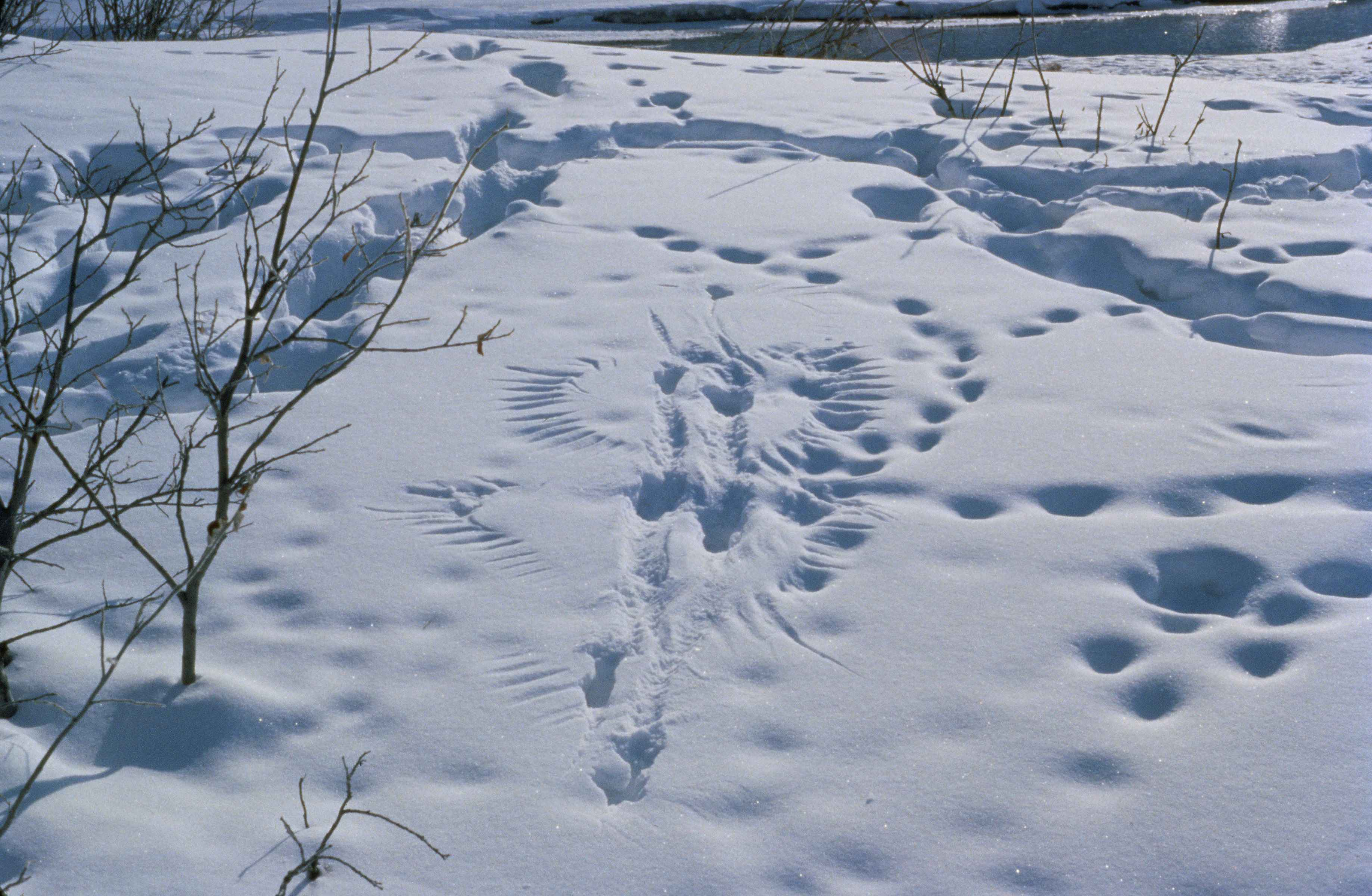 Image title: Predator and prey activity footprints animal traces in the snow Image from Public domain images website